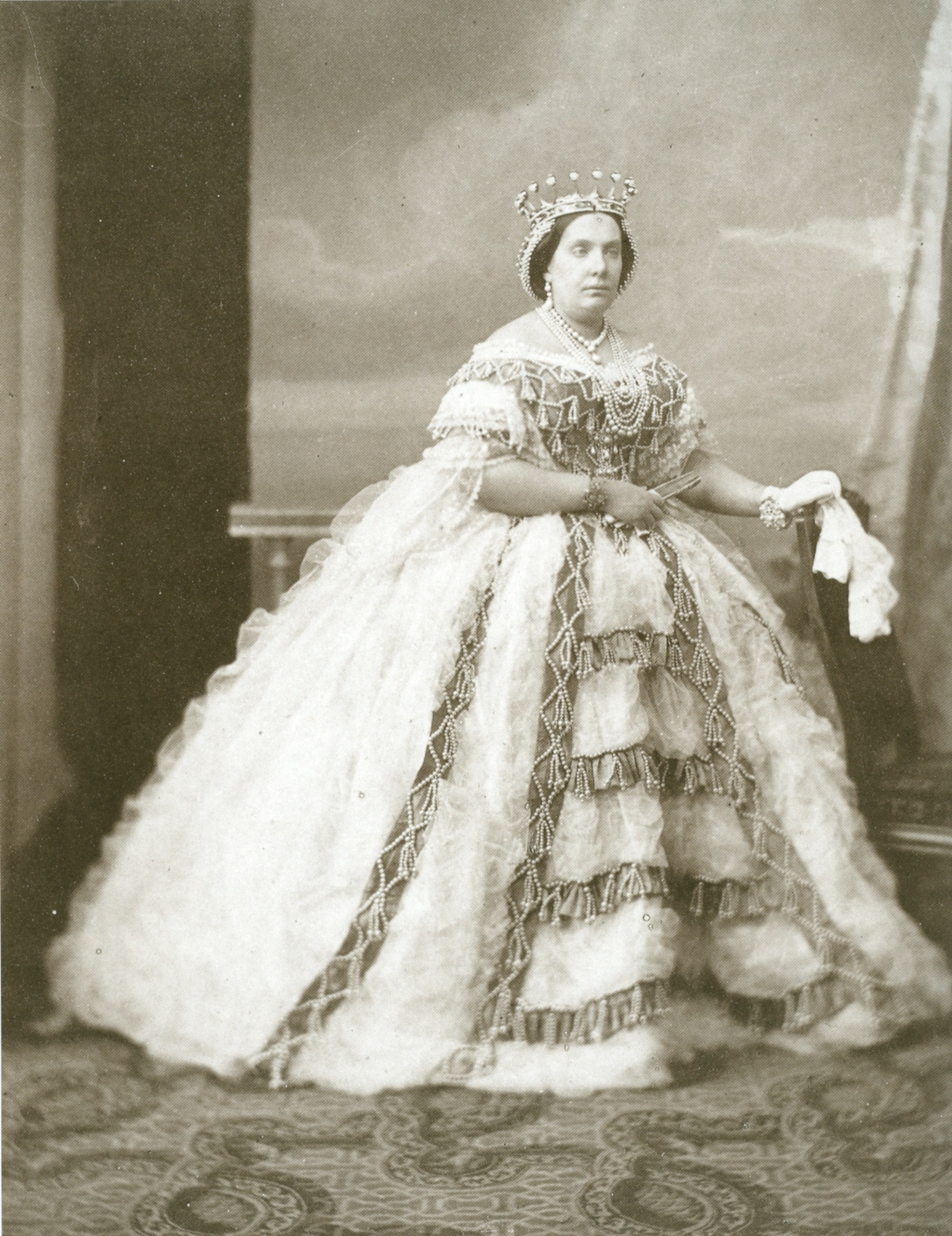 Queen Doña Isabel II of Spain at age 31, 1861